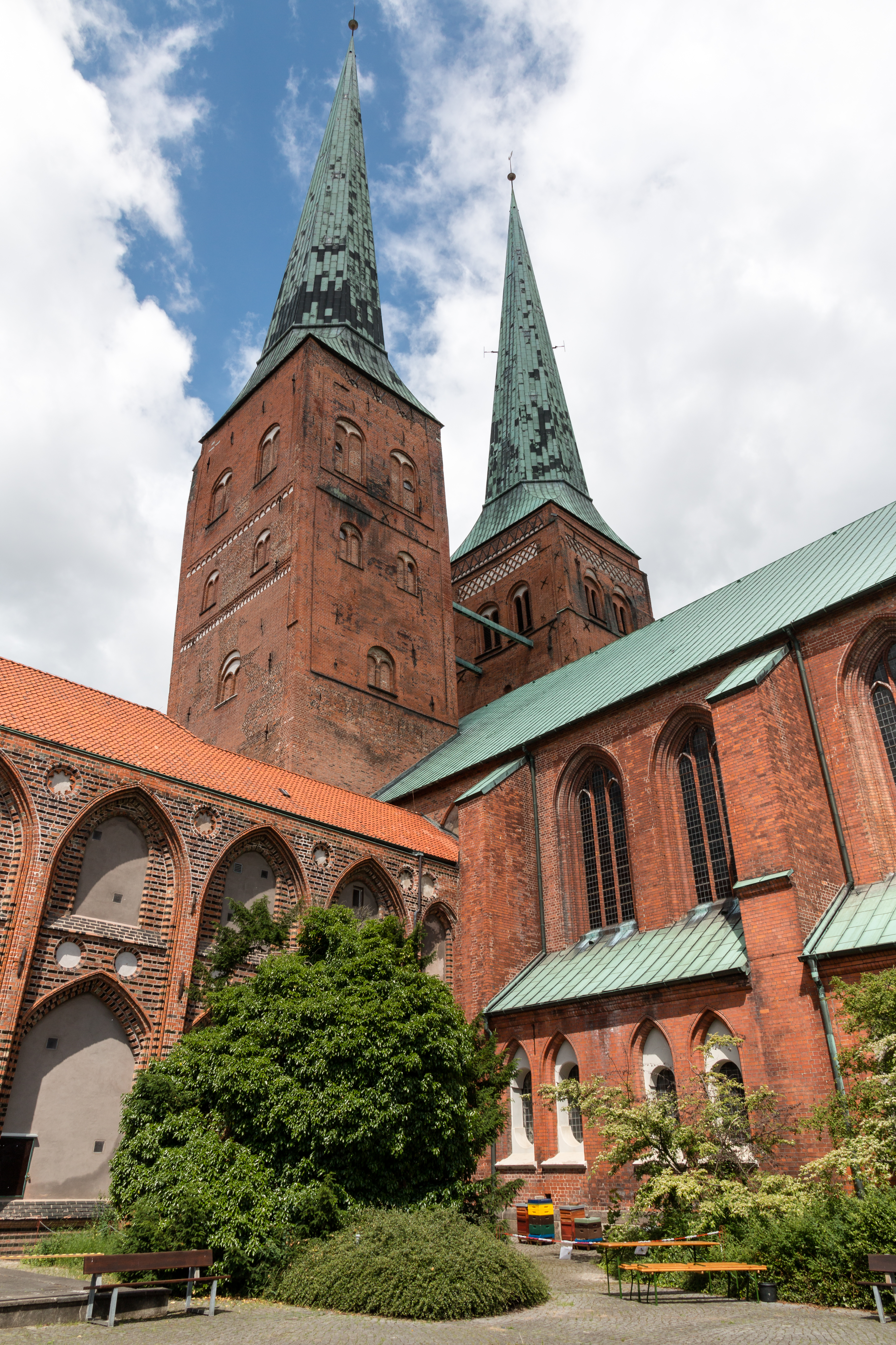 Cathedral, Lübeck, Schleswig-Holstein, Germany This is a photograph of an architectural monument.It is on the list of cultural monuments of Lübeck